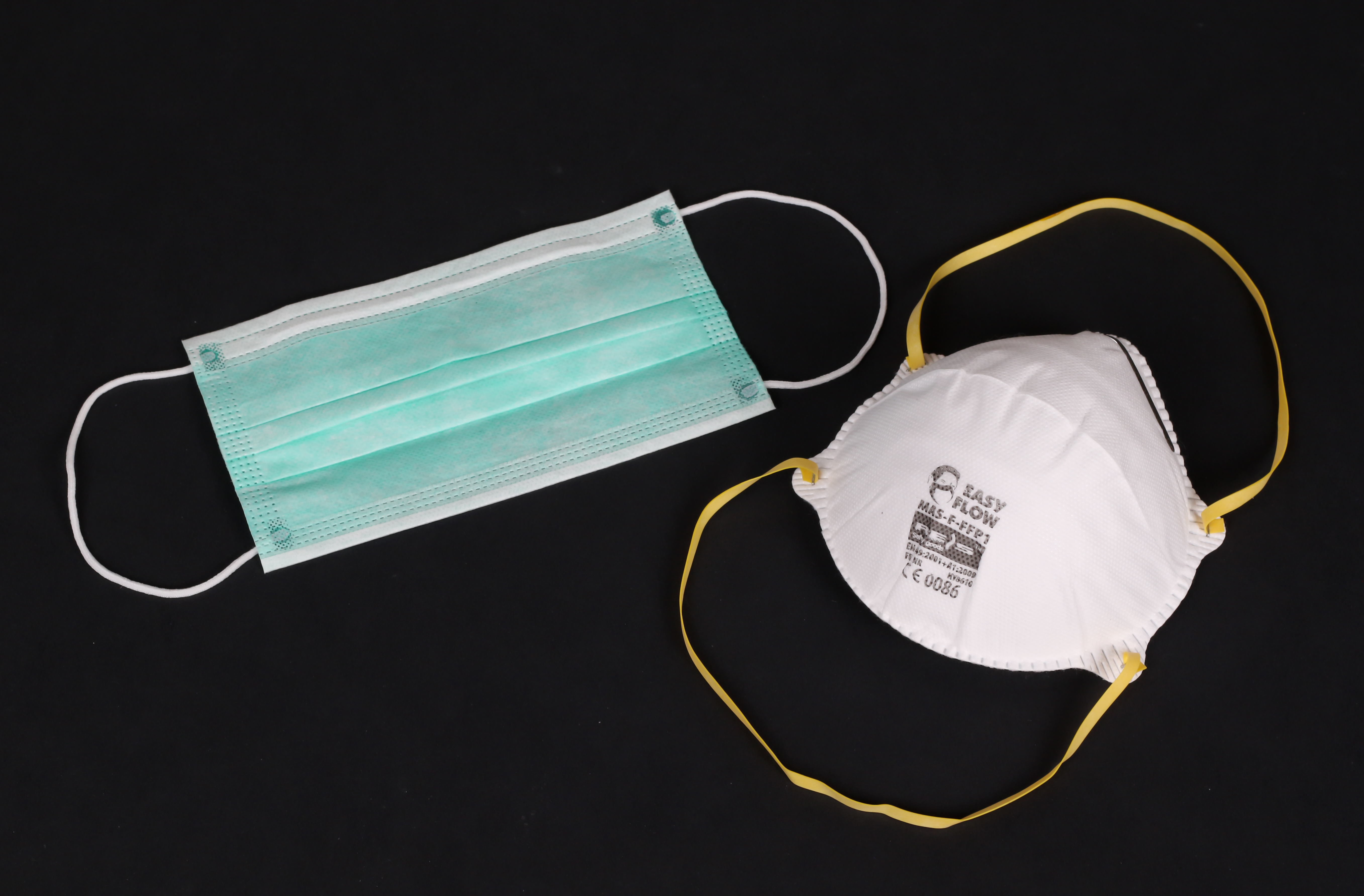 A surgical mask (left) and an FFP1 mask (right) often used to prevent the spread of coronavirus.